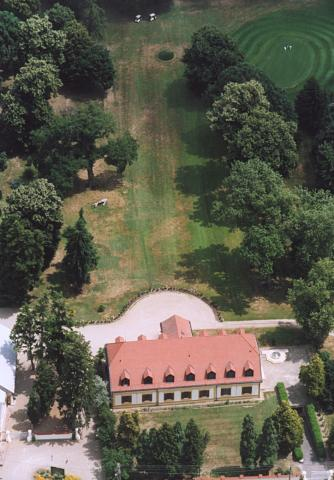 Hencse, Hungary, aerialphotography (Márffy-kúria)